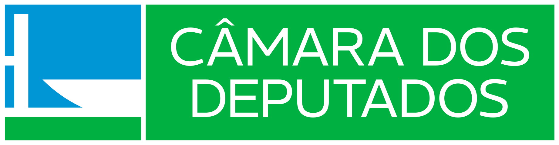 As the logo of the Chamber of Deputies already exists, I have made this logo on my own respecting the laws of my country. With the clear objective to show to the world symbols of my country's Parliament. Remembering that I have done the work, but the logo is property of the Federative Republic of Brazil.